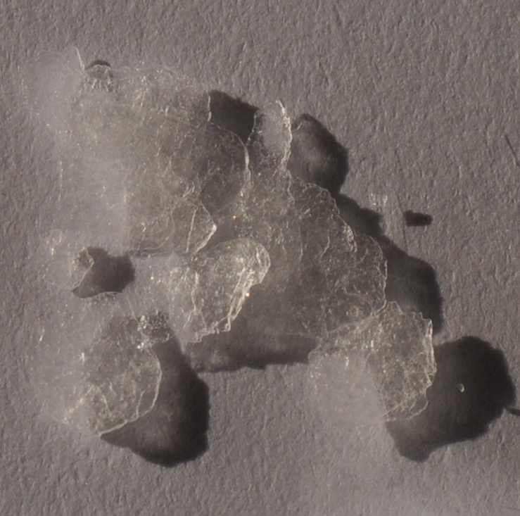 Heneicosane (C21H44)